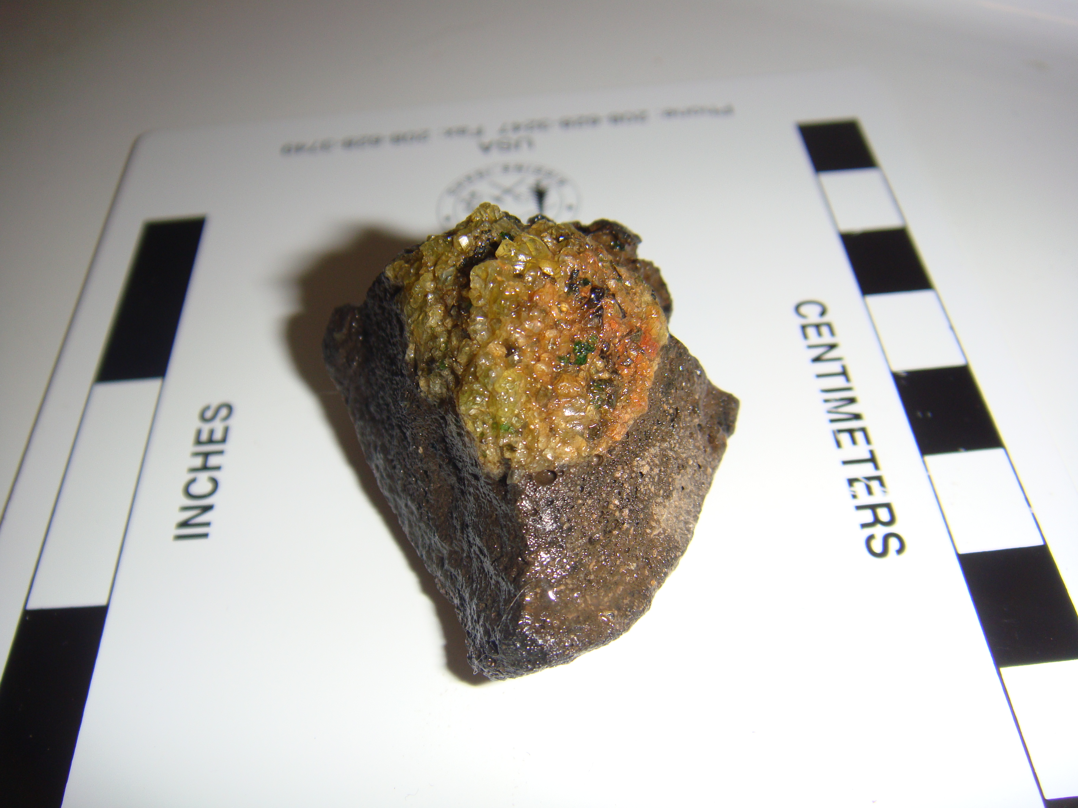 A mantle xenolith of peridotite, showing chemical weathering of olivine (green) to iddingsite (brown). The most likely cause of this alteration (or difference in amount of alteration) is the fracture surface: the rock was fractured first exposing the right side of the peridotite, then later, the left side, keeping it fresher and less chemically weathered.